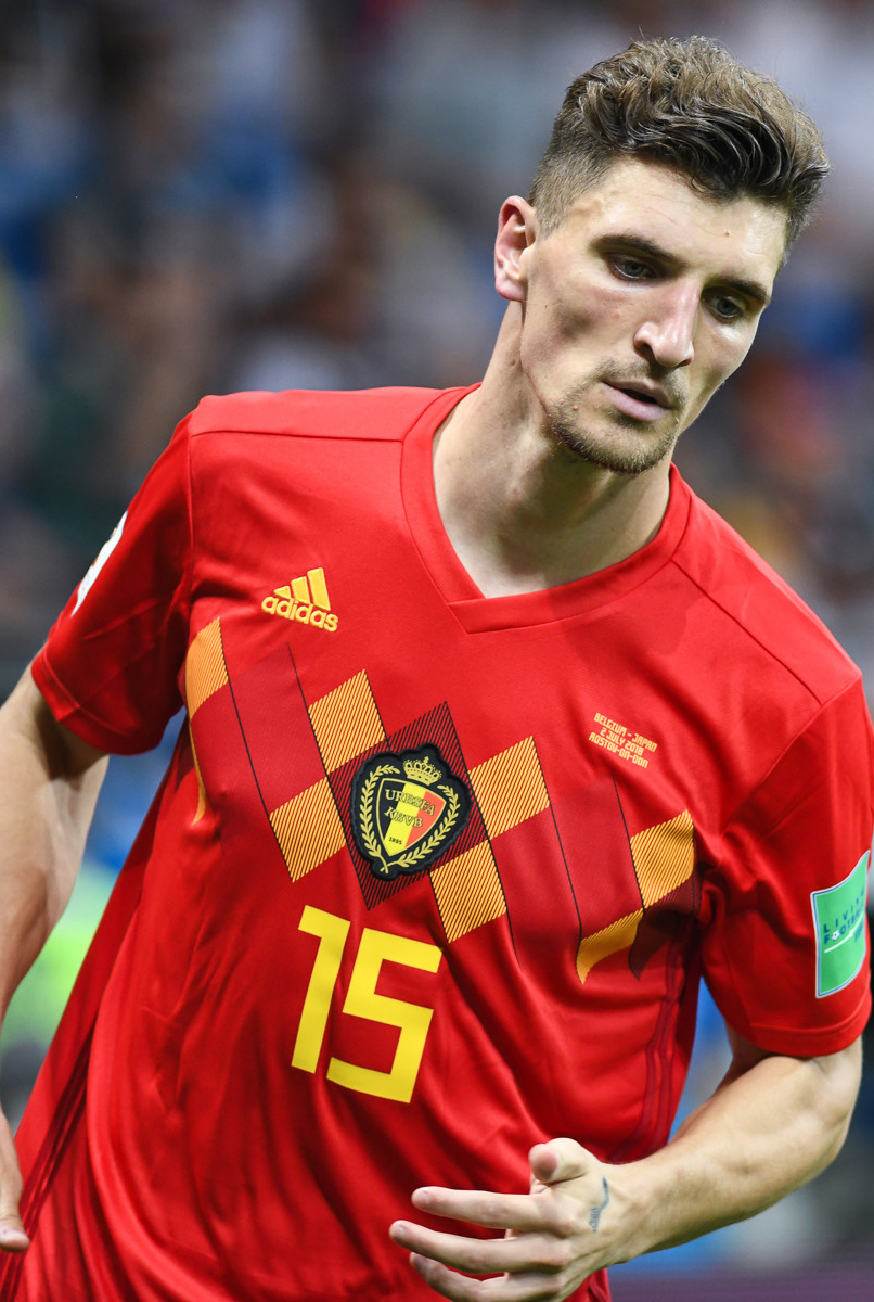 Belgian footballer Thomas Meunier on 2 July 2018, during the 2018 FIFA World Cup Round of 16 match between Belgium and Japan.